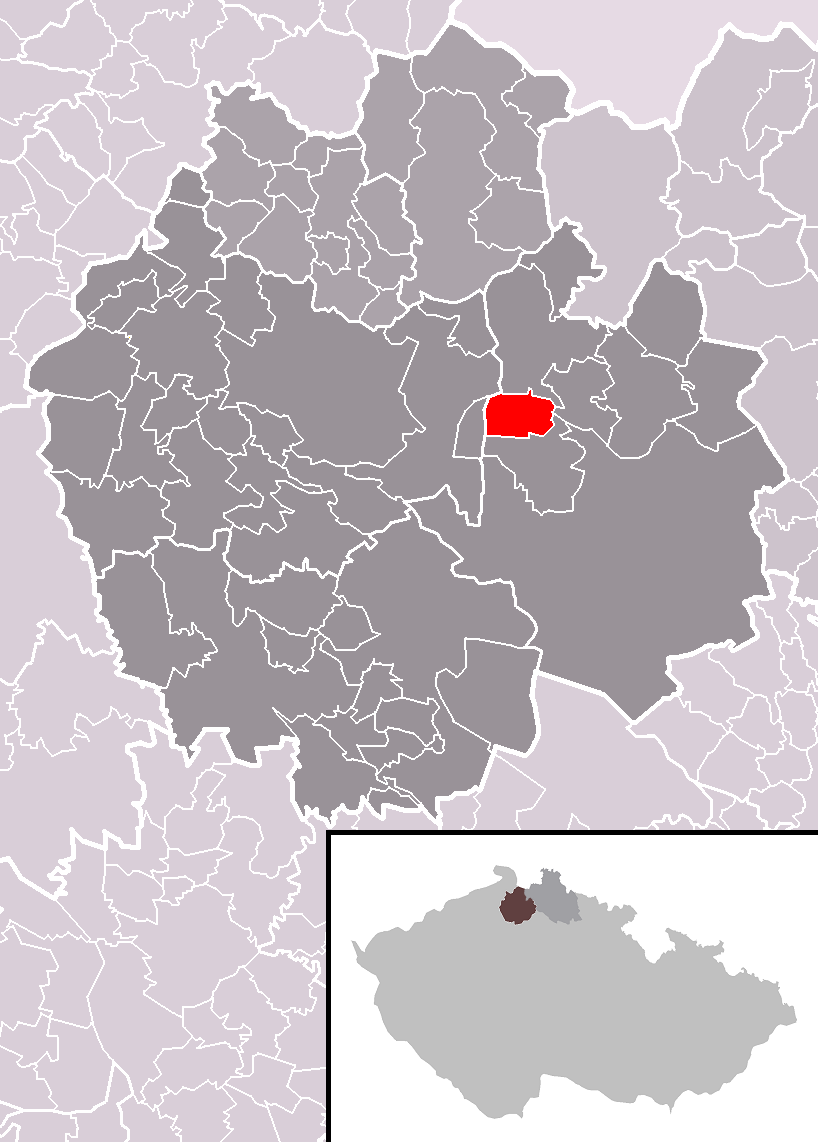 Location of Pertoltice pod Ralskem municipality within Česká Lípa District and administrative area of Česká Lípa as a Municipality with Extended Competence.